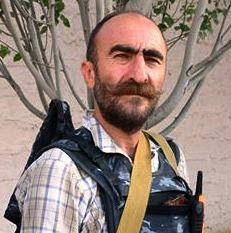 Pavlik Manukyan